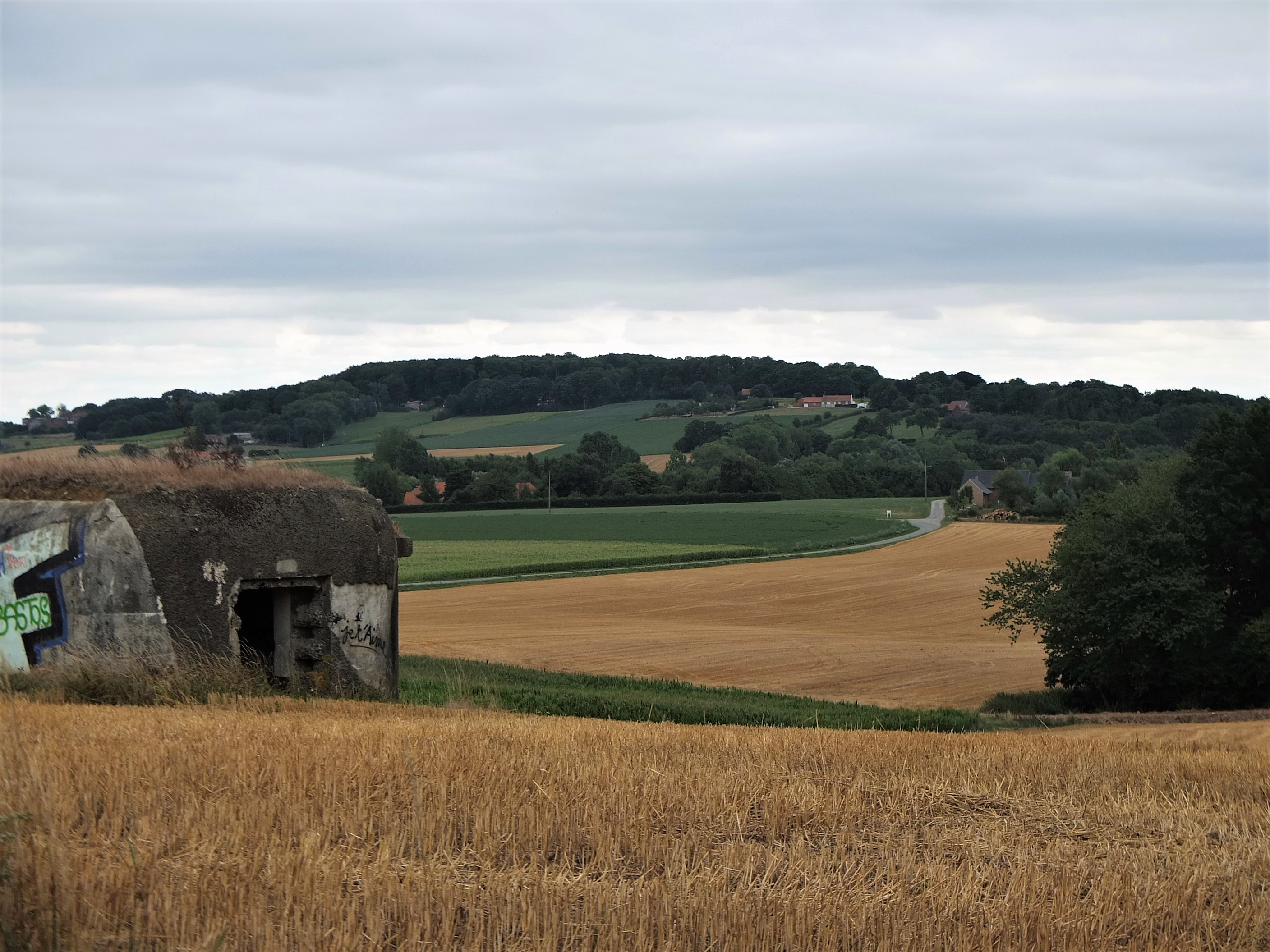 The Mont Noir (Black Mountain,Zwarte Berg in Flemish) Small mountain of 152 metres (499 ft) in Flanders